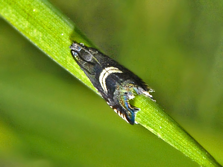 Grapholita cf. pallifrontana. Cerreto R., Alessandria, Italy